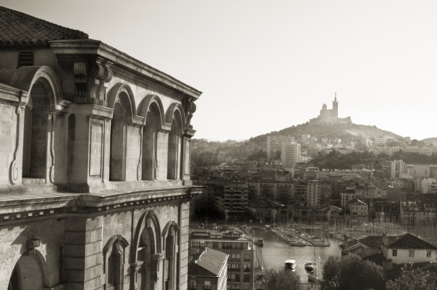 Basilica Notre-Dame de la Garde seen from one of the oldest hospitals in Marseille.